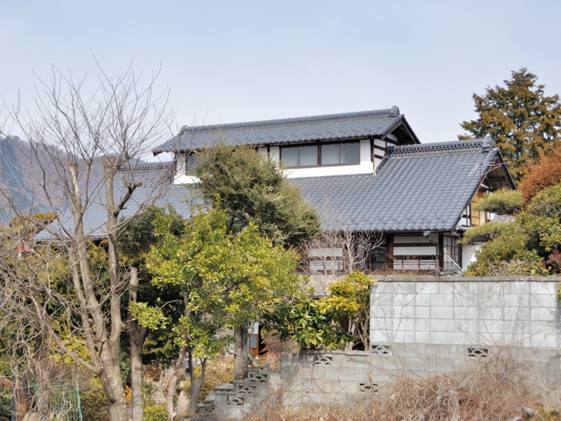 Mizukamisou Building